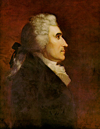 Portrait of Jonathan Dayton (1760-1824), American politician Jonathan Dayton’s portrait by Henry Harrison is based on a profile drawing of the Speaker, also in the House Collection. This work was among the first paintings commissioned following the mandate for the institution to acquire oil paintings of each former Speaker. The Harrison portrait shows a rather more polished individual than the original drawing, but retains the profile format, unusual among the Speaker portraits.